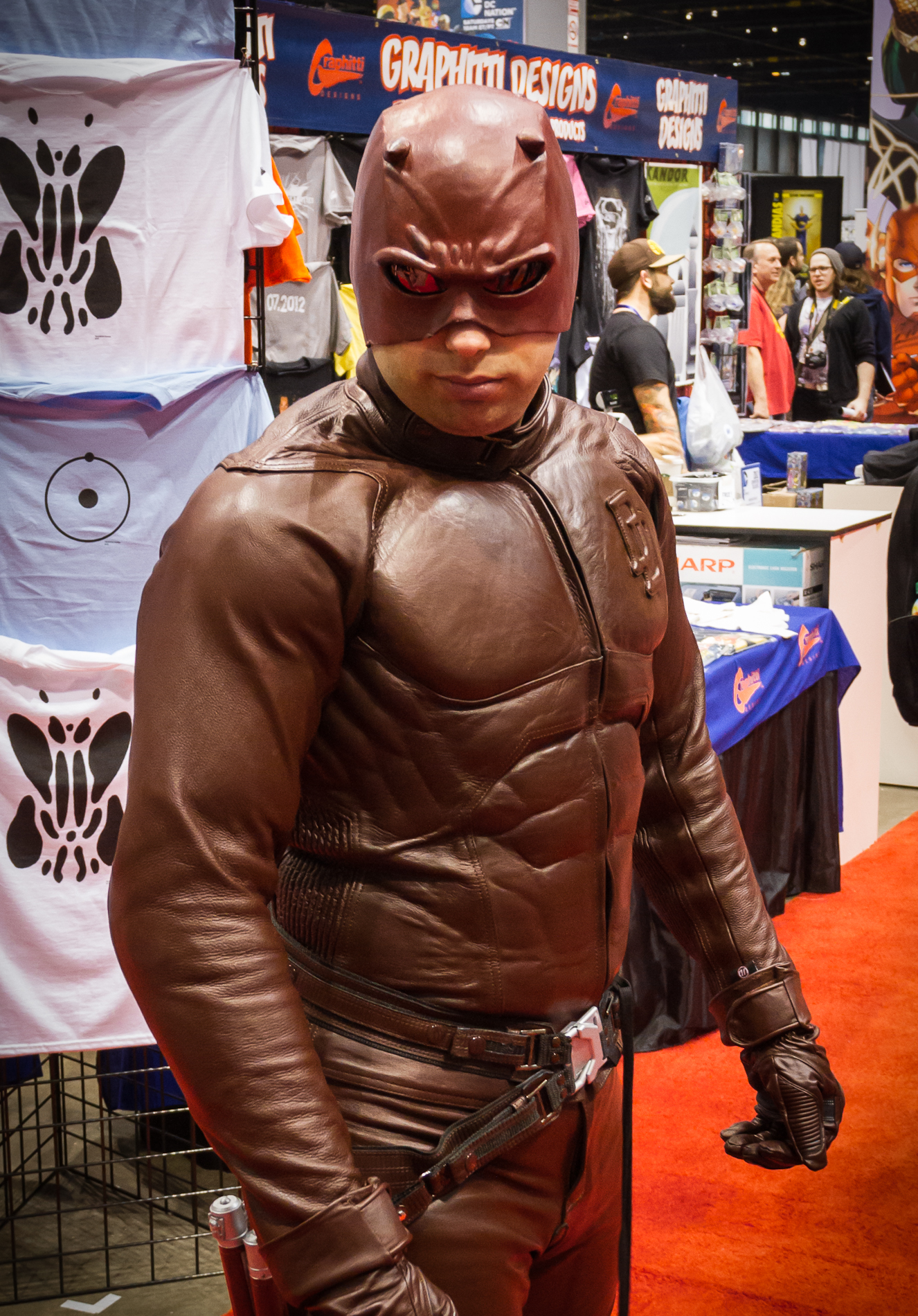 Daredevil cosplay at C2E2 2012